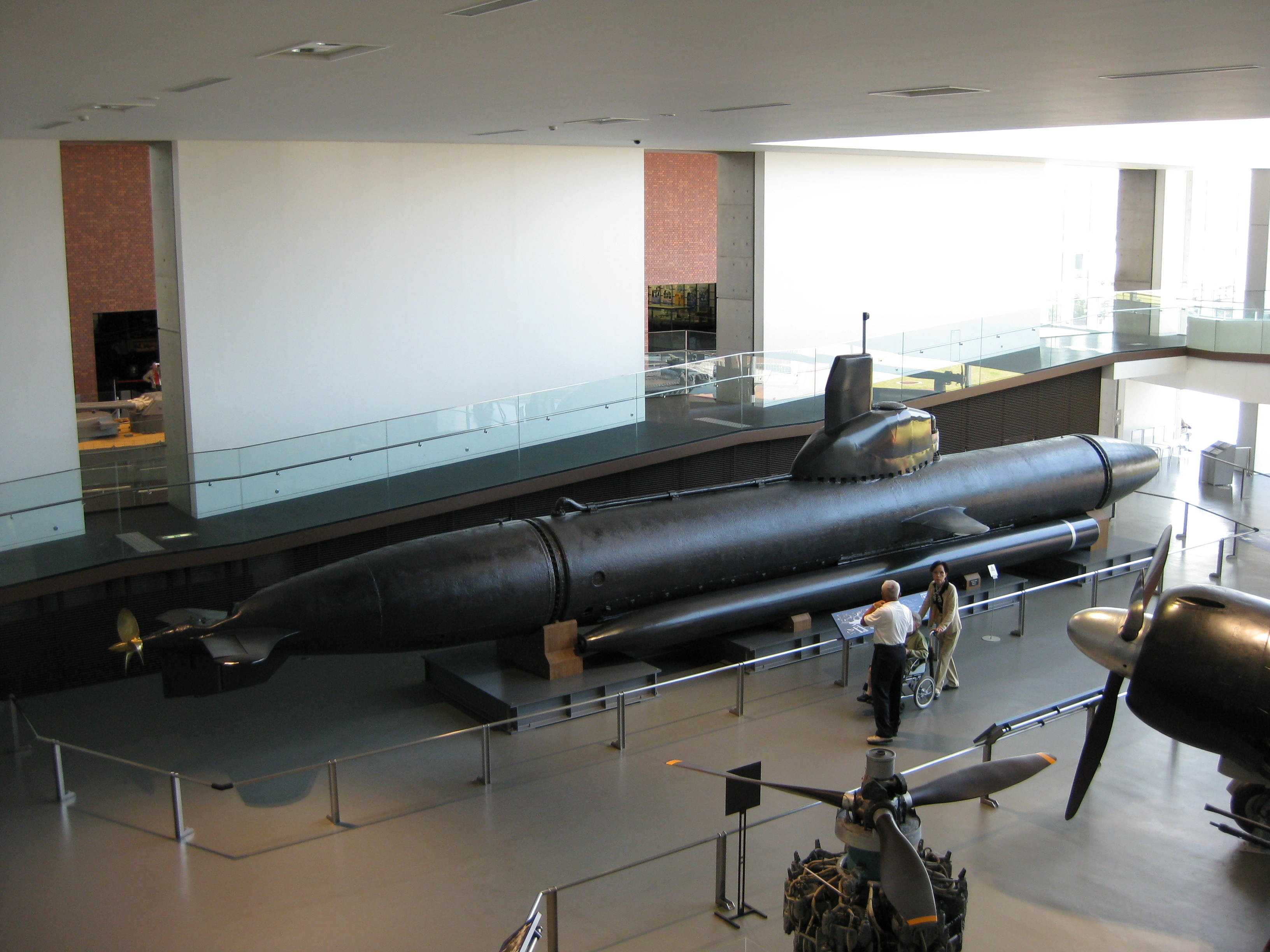 A Kairyu class submarine on display at the Yamato Museum in Kure during October 2008